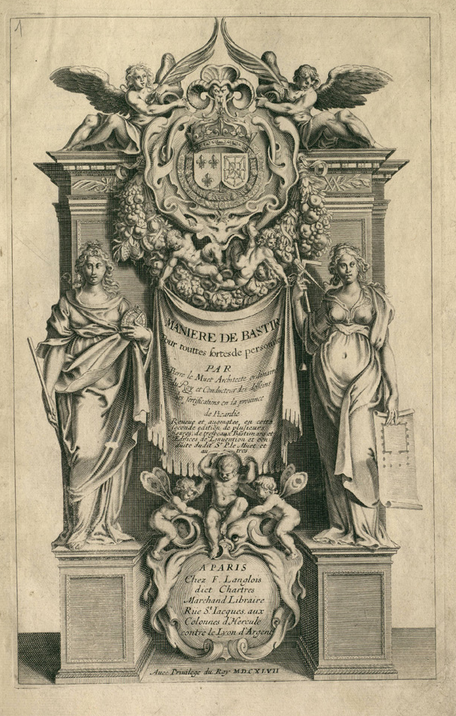 Le Muet: Maniere de bastir, frontispiece